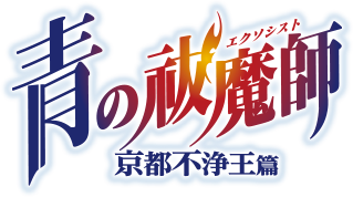 Blue Exorcist: Kyoto Impure King Arc logo